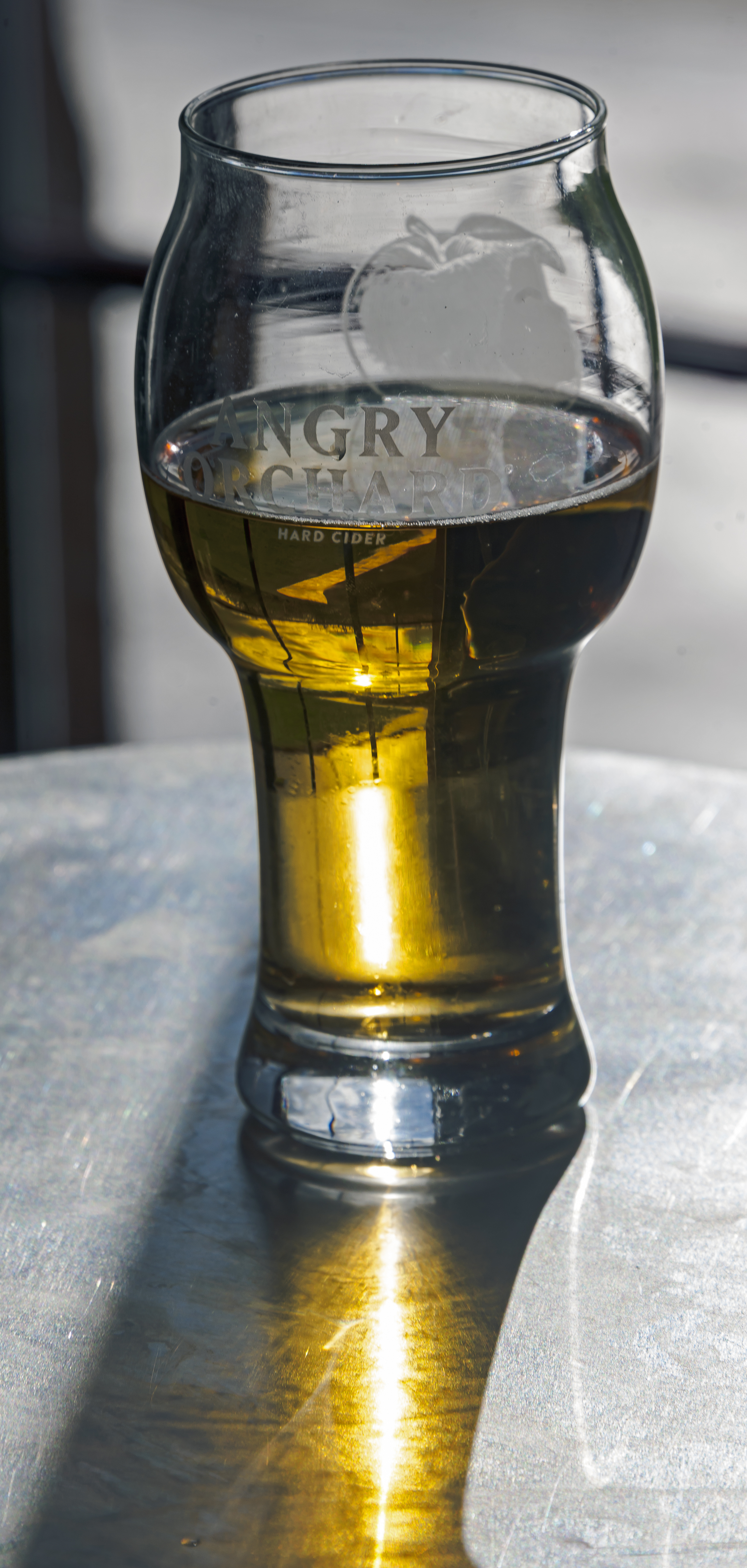 Hard cider at the Angry Orchard facility outside Walden, NY, USA